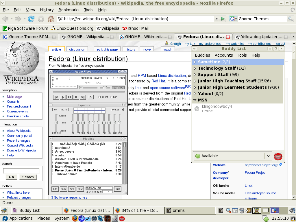 A Screen Shot of Fedora 7 using the Bluecurve Theme and GNOME.